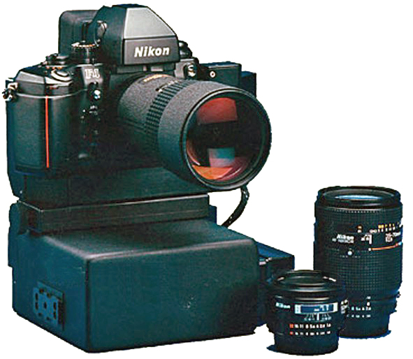 NASA Image ID: S90-54319